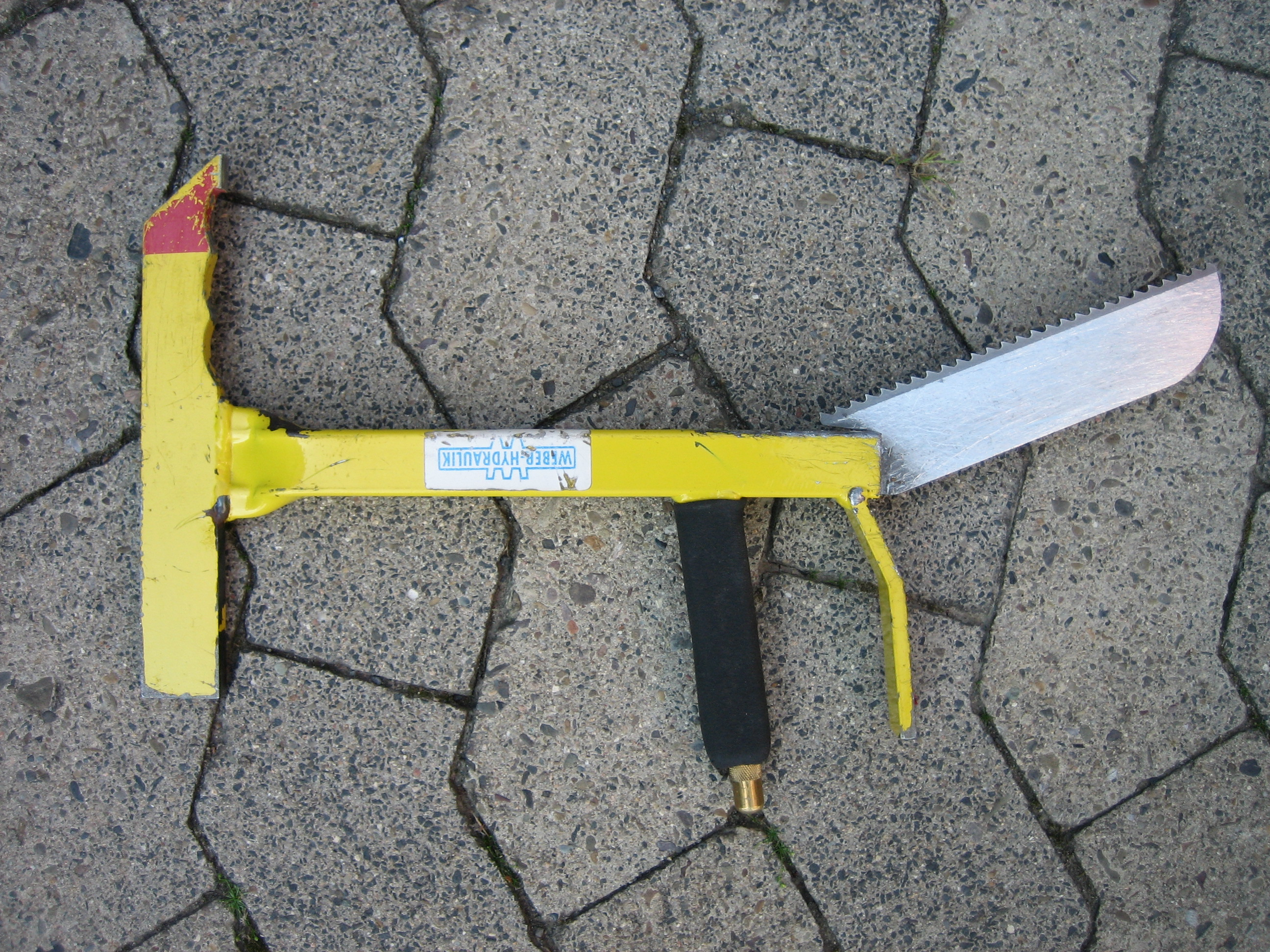 Glasmaster (tool to saw glasses)